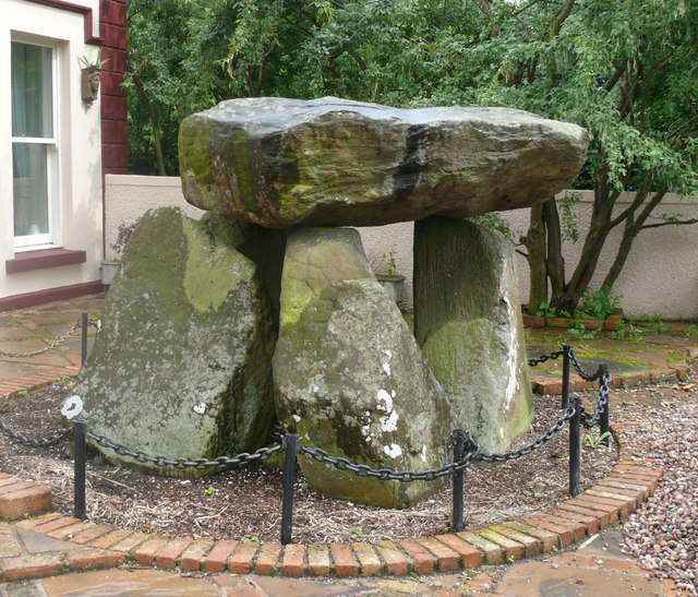 Ballylumford Dolmen - The dolmen also known locally as the "Druids Altar" on the Ballylumford road a short distance from the Power Station. A wall plaque at the site describes it as a single chambered grave erected about 2000-1600 BC Local finds indicate occupation of neighbourhood during Bronze Age but no proof of association with Druids.